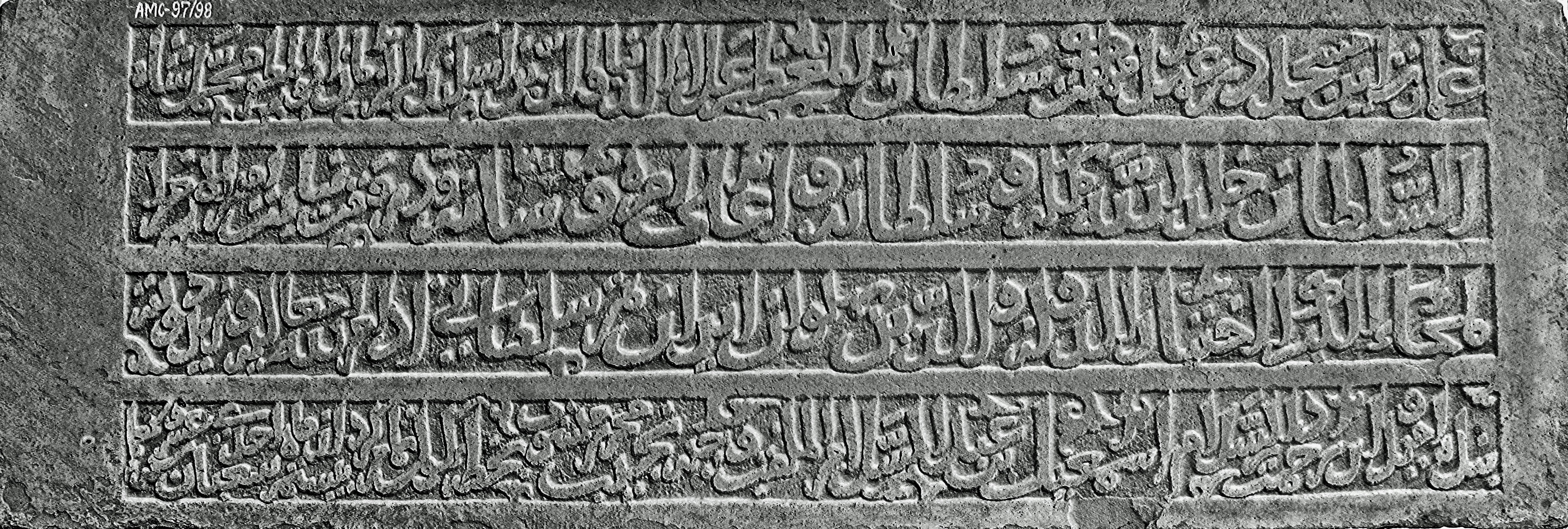 Chanderi Inscription of ‘Alā' al-Dīn Khaljī, dated Friday 31 December 1311 C.E.